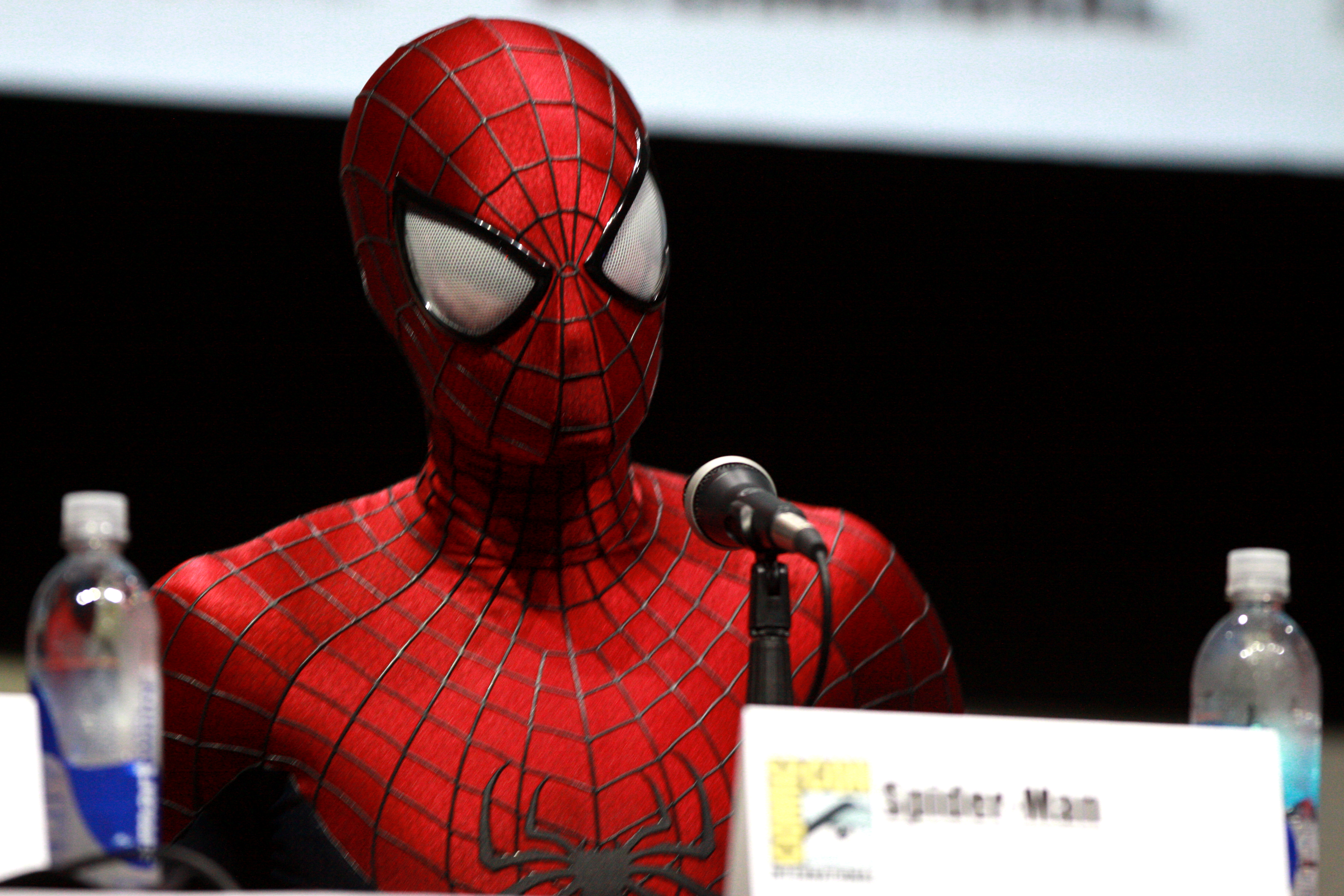 Spider-Man Spider-Man speaking at the 2013 San Diego Comic Con International, for "The Amazing Spider-Man 2", at the San Diego Convention Center in San Diego, California.